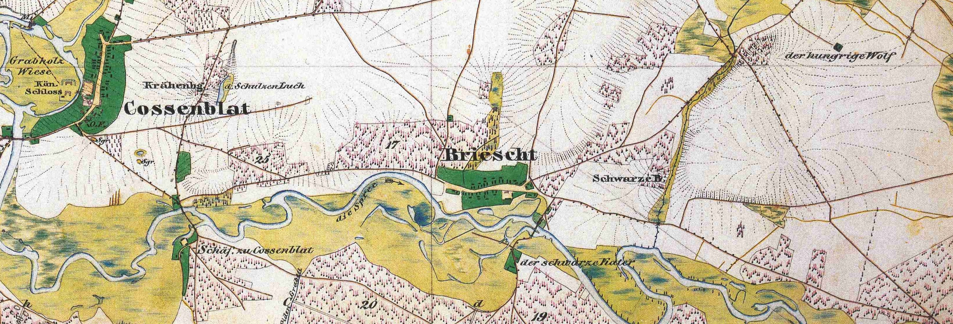 River Spree and village Briescht, detail from the Urmesstischblatt (prototype planetable sheet at 1:25,000) Sheet 3850 Kossenblatt, drawn in 1846. Today, Briescht is a part of the municipality Tauche in the District Oder-Spree, Brandenburg, Germany.